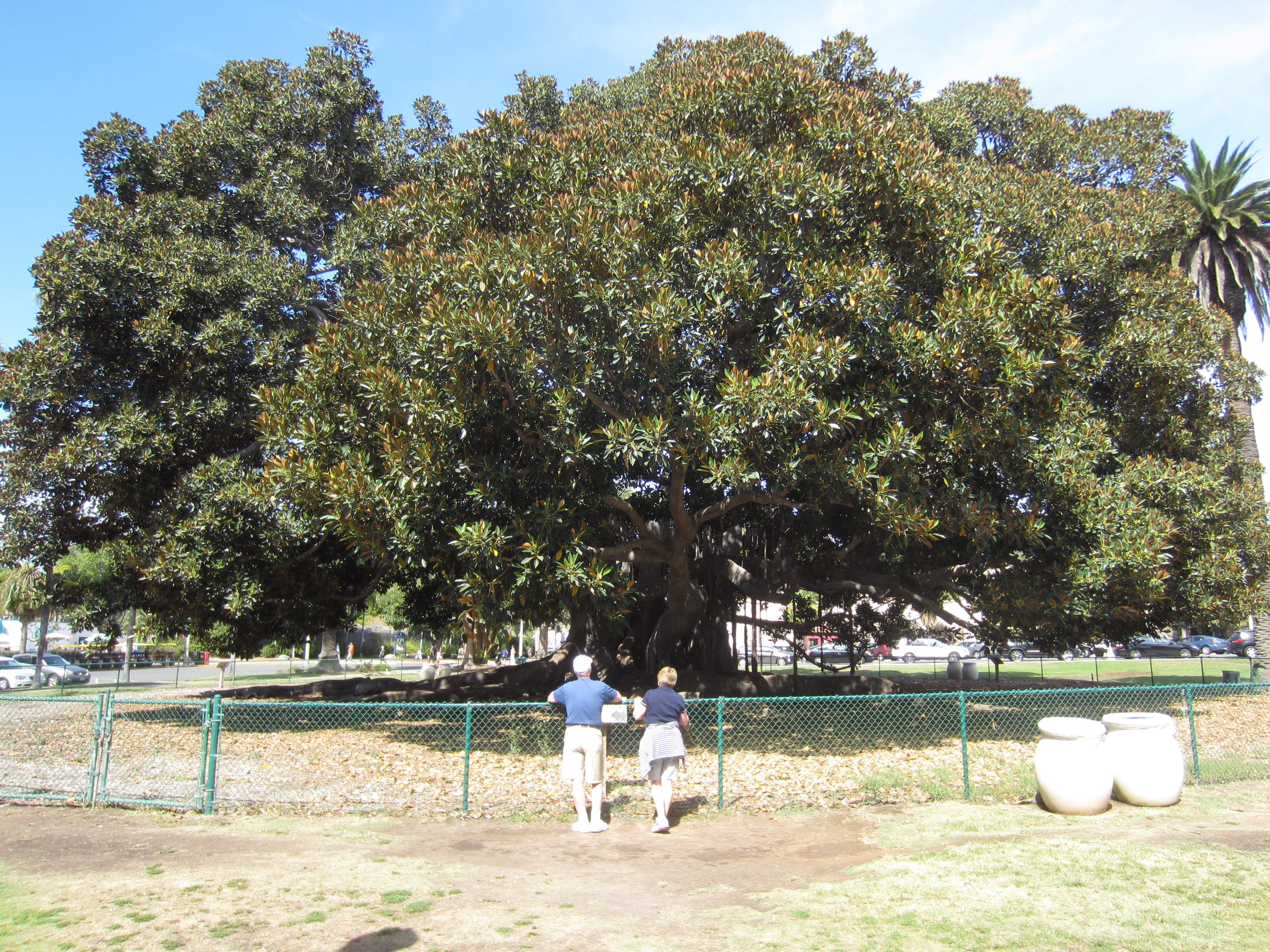 San Diego, California (2016)